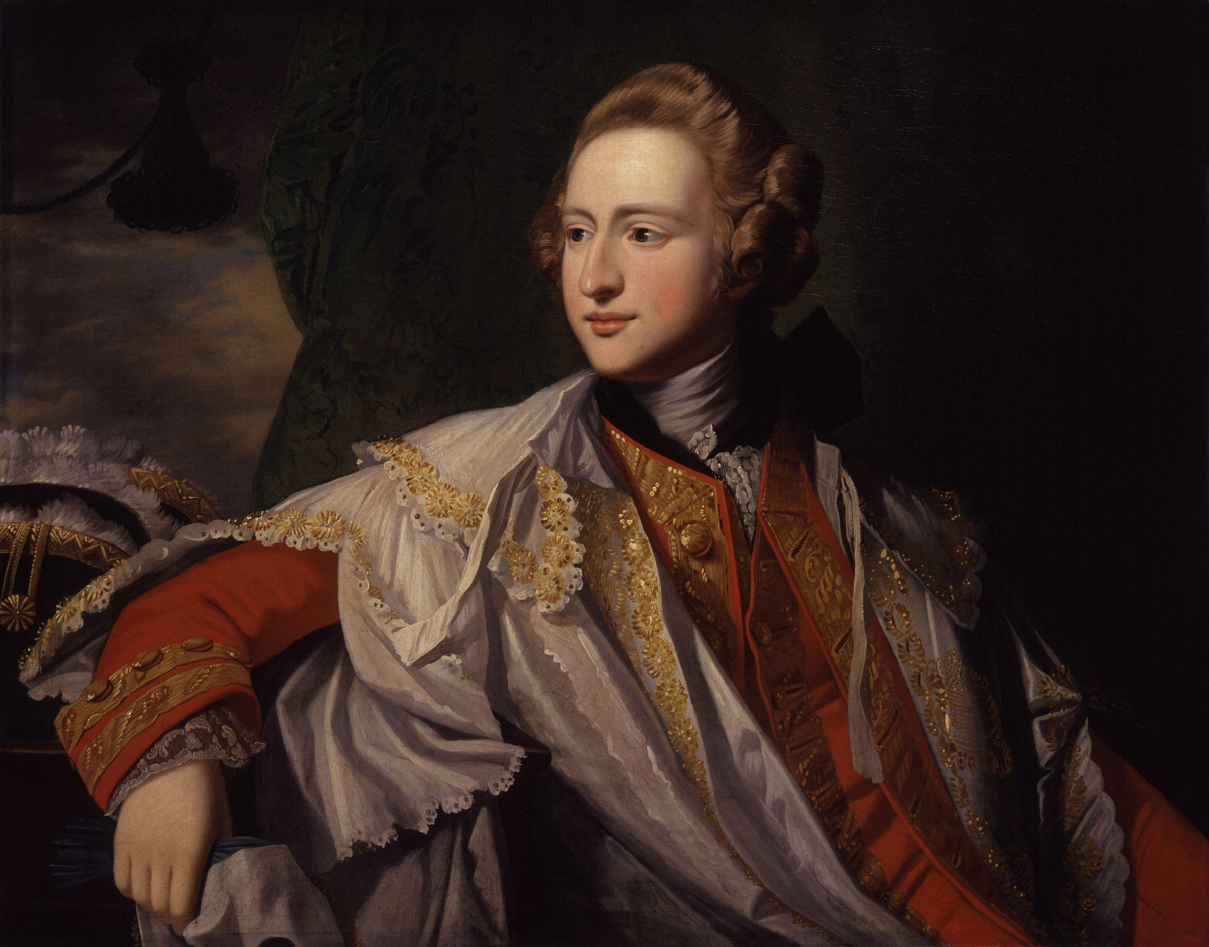 Francis Osborne, 5th Duke of Leeds, by Benjamin West (died 1820), given to the National Portrait Gallery, London in 1888. All images in this batch have been confirmed as author died before 1939 according to the official death date listed by the NPG.